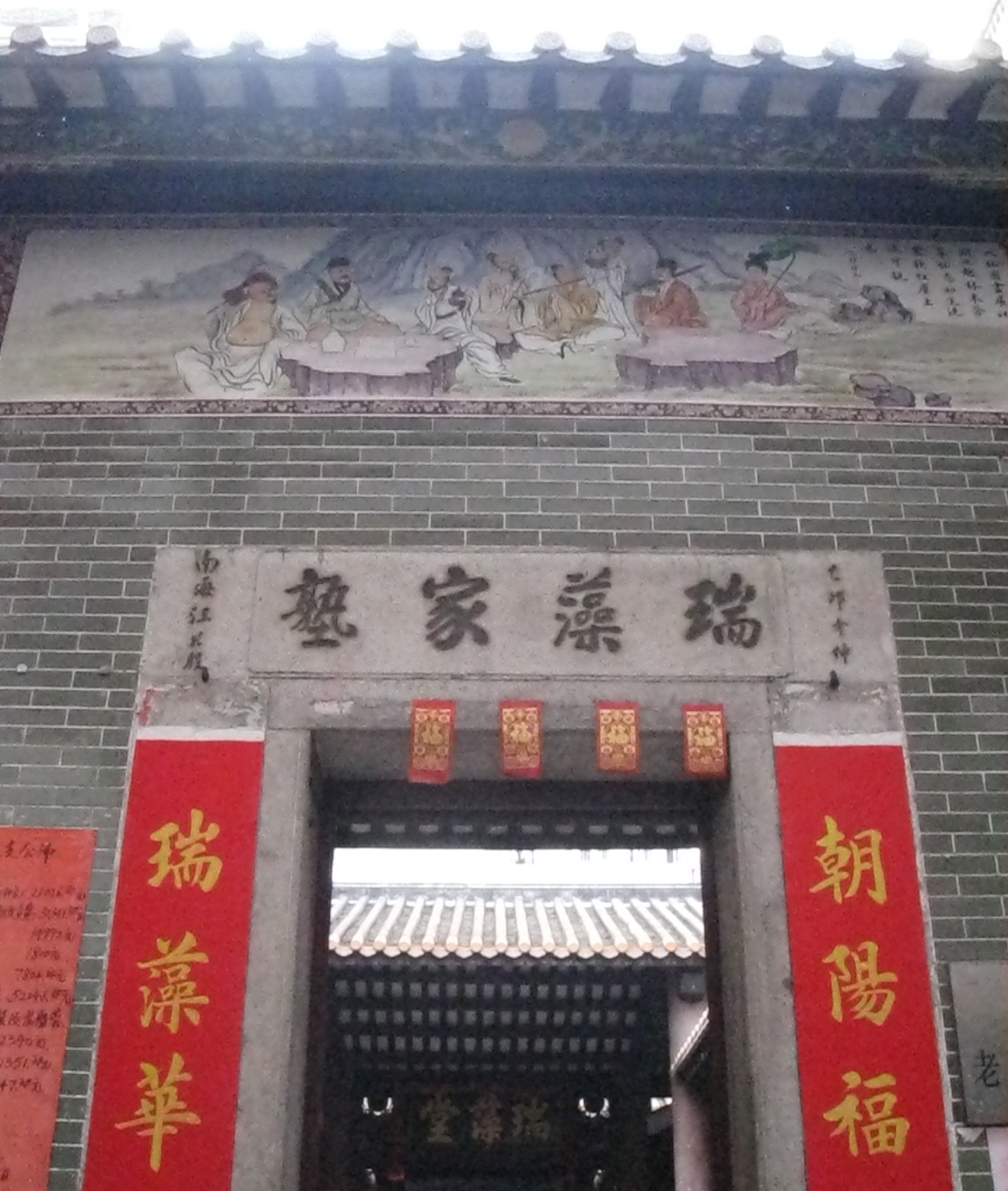 Jui Tsao Private School (a sheltered accommodation now), Shipai Village, Guangzhou, China